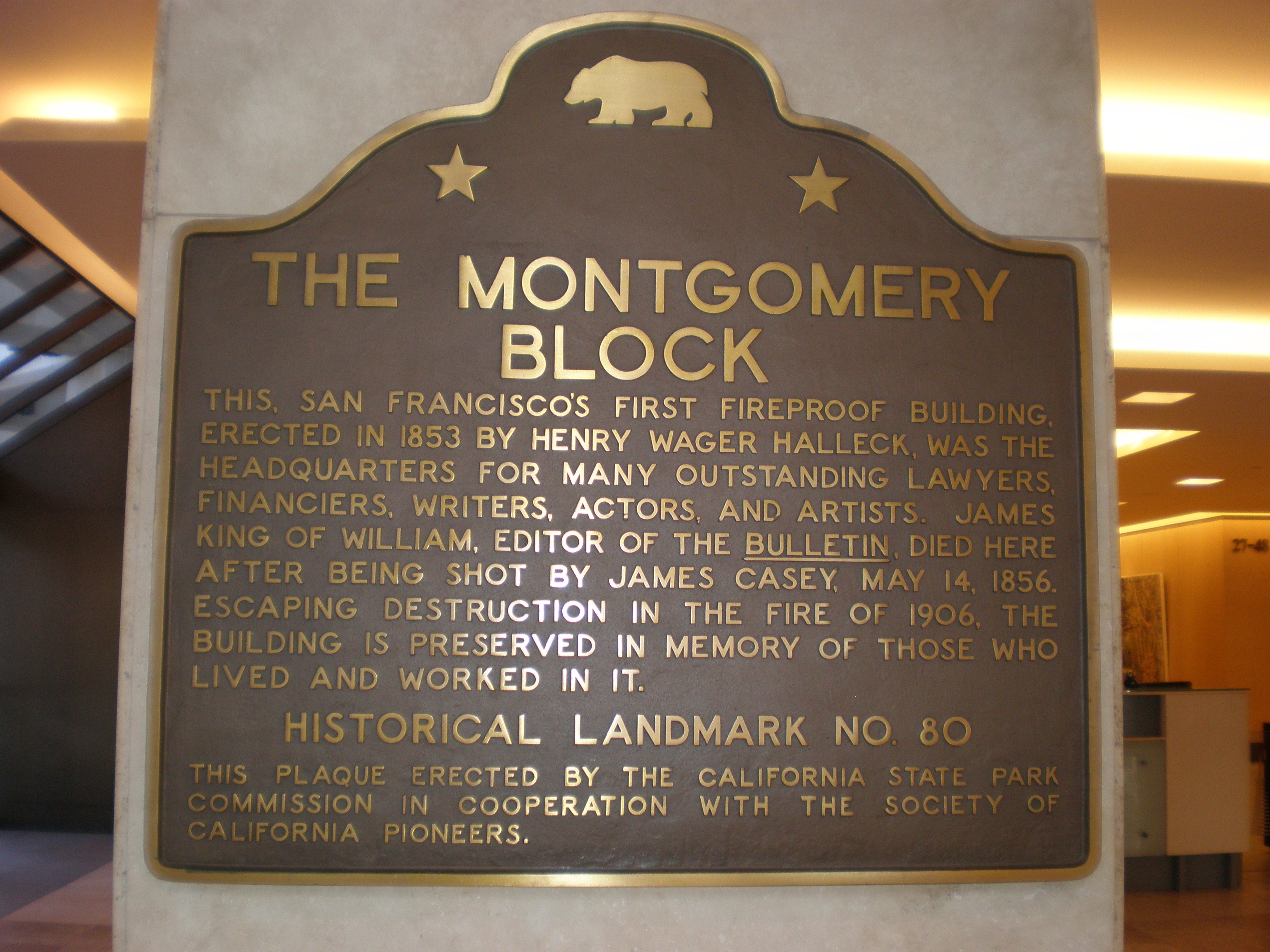 A California historical marker commemorating the Montgomery Block in the lobby of the Transamerica Pyramid in San Francisco.